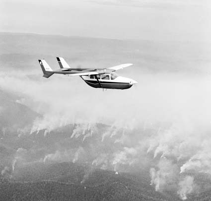 Aerial Ignition, Western Australia, 1968. Close-up of plane dropping fire pellets - smoke ribbon